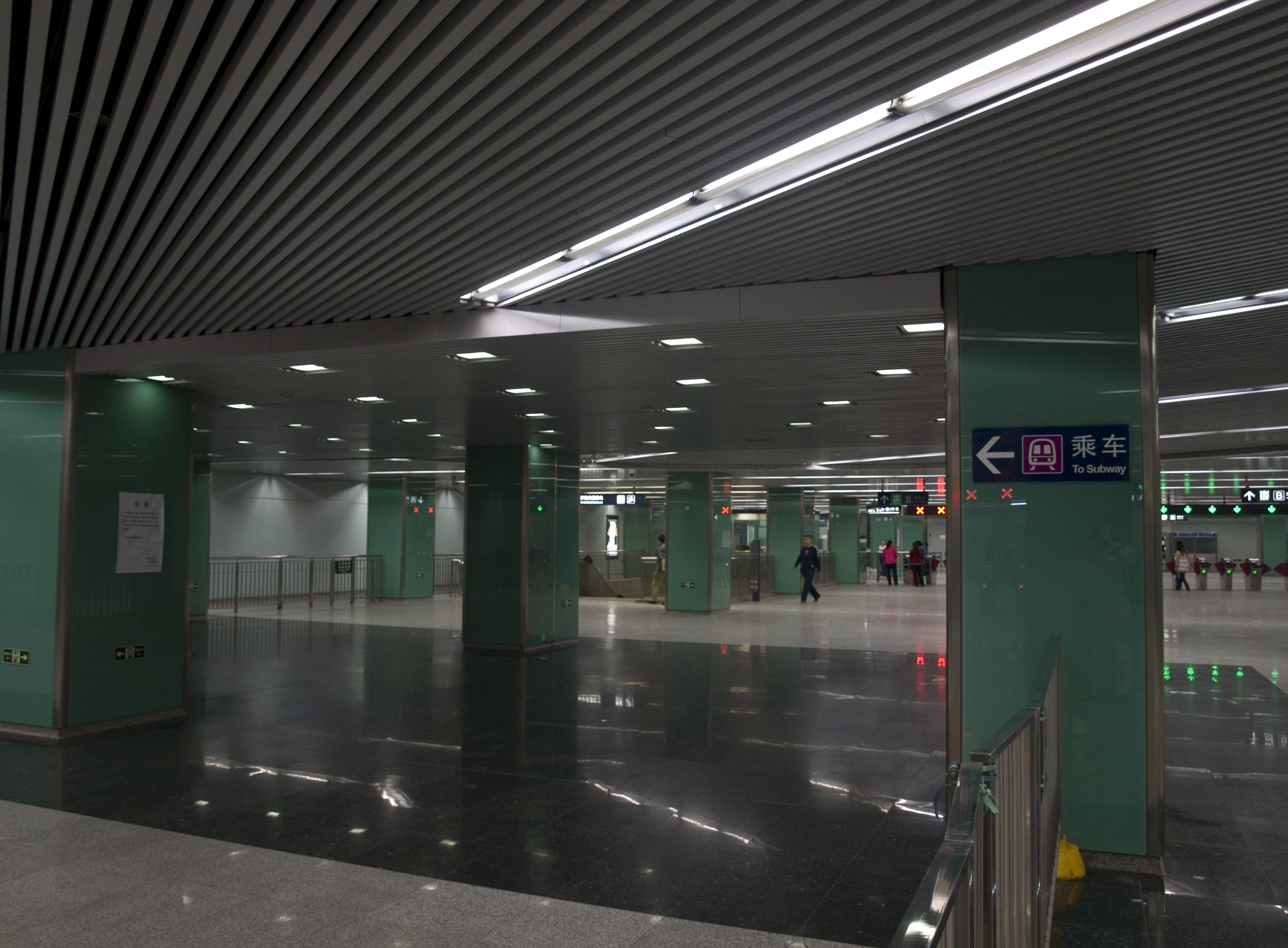 Songjiazhuang station Hall, Beijing Subway